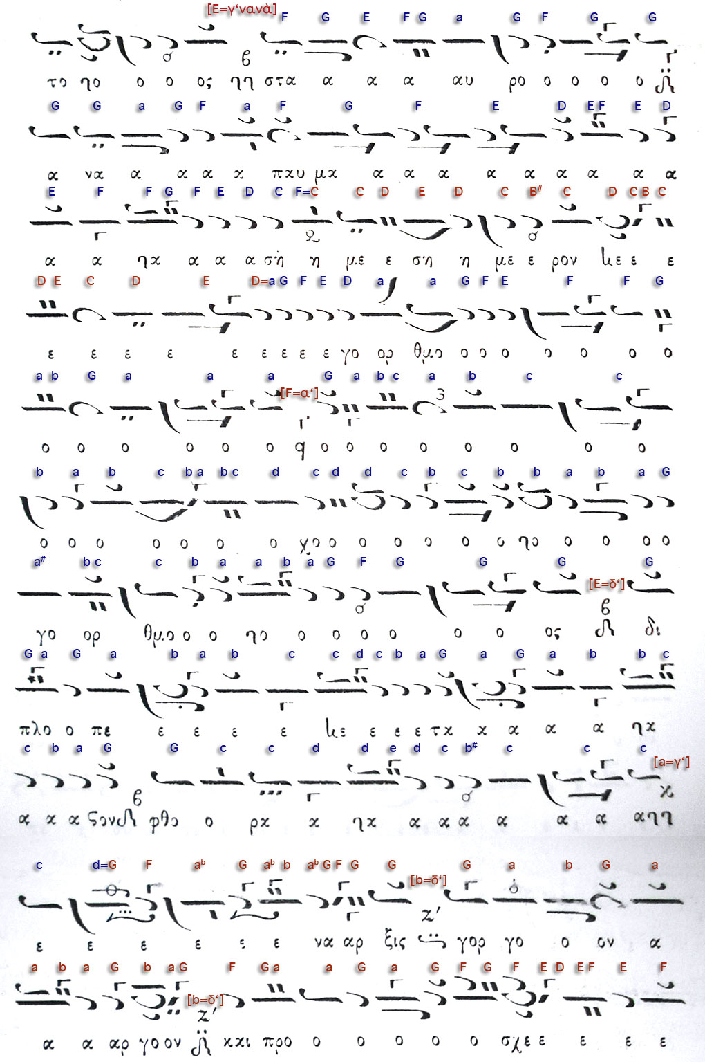 Transcription of an extract taken from John Koukouzeles' didactic chant "Mega Ison" (printed edition, 1896)